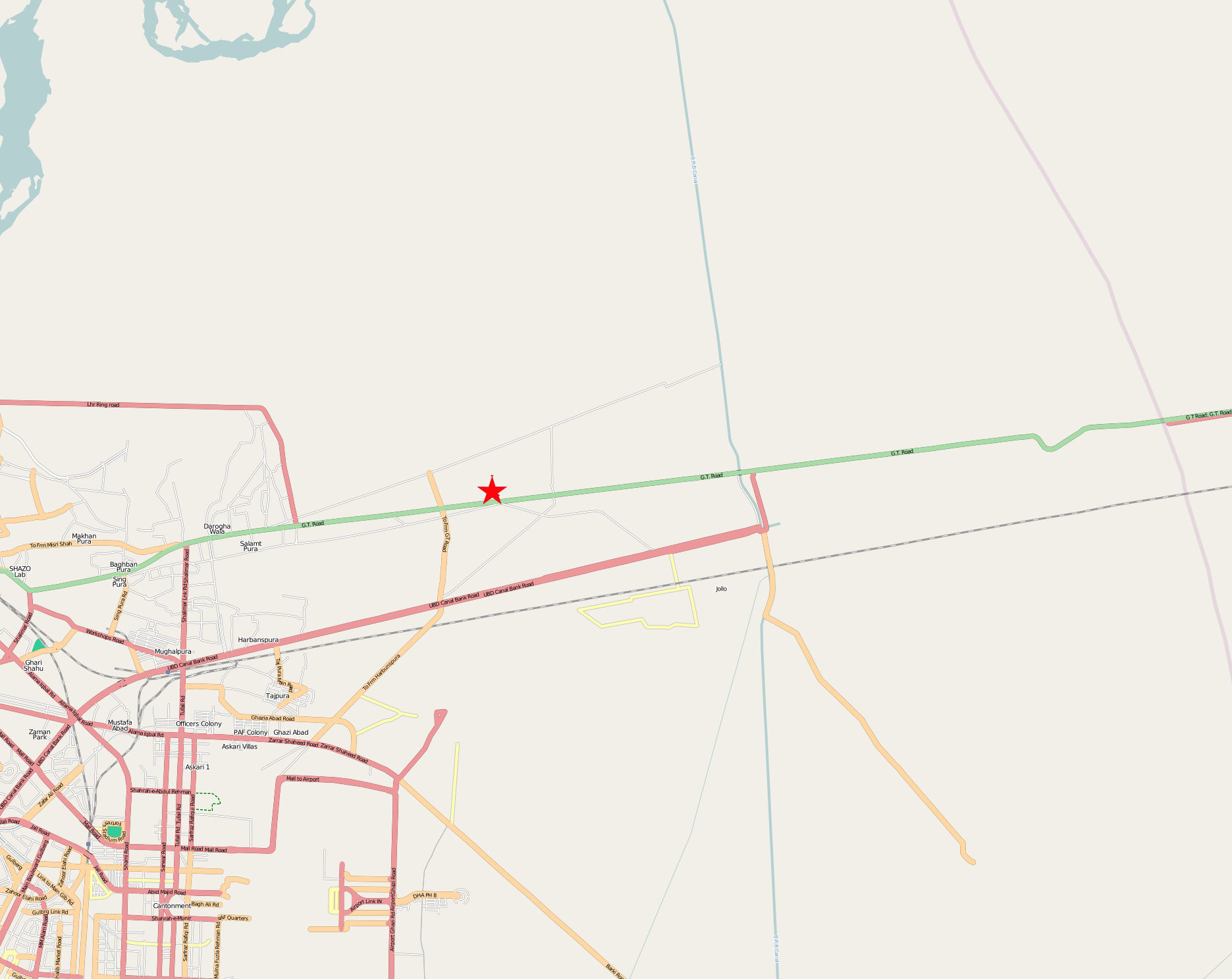 Location of Manawan Police Training School Lahore location of w:2009 Lahore police academy attacks